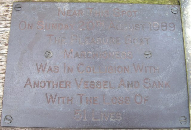 Memorial Plaque for the pleasure craft Marchioness. This small plaque near the Royal Festival Hall on the South Bank appears is one of the memorials to Marchioness, which was run down by the dredger Bowbelle on 20 August 1989